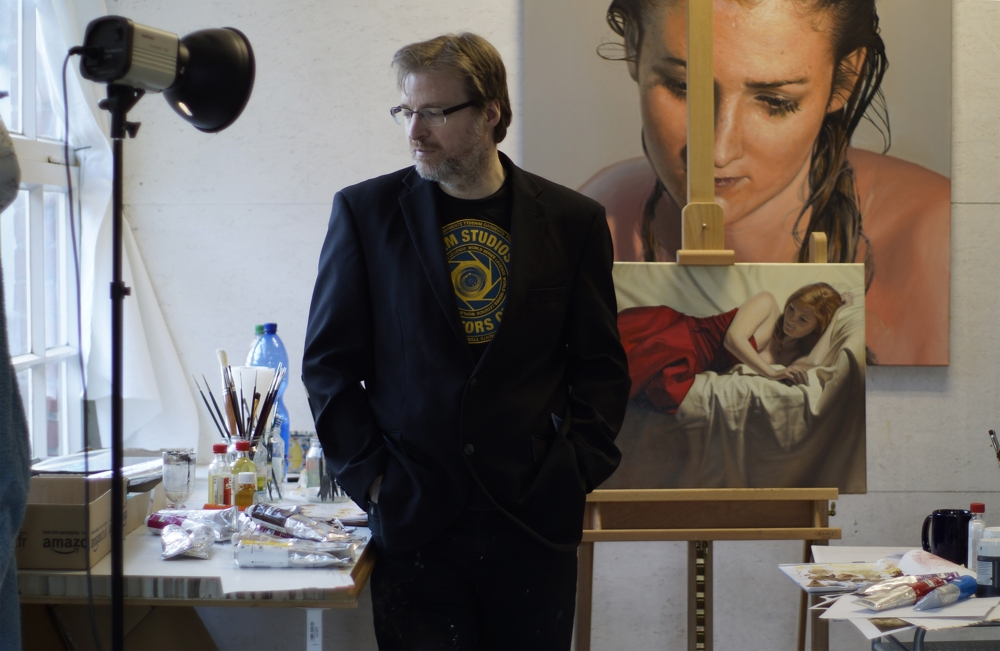 Dirk Dzimirsky in his atelier in Bocholt, Germany.